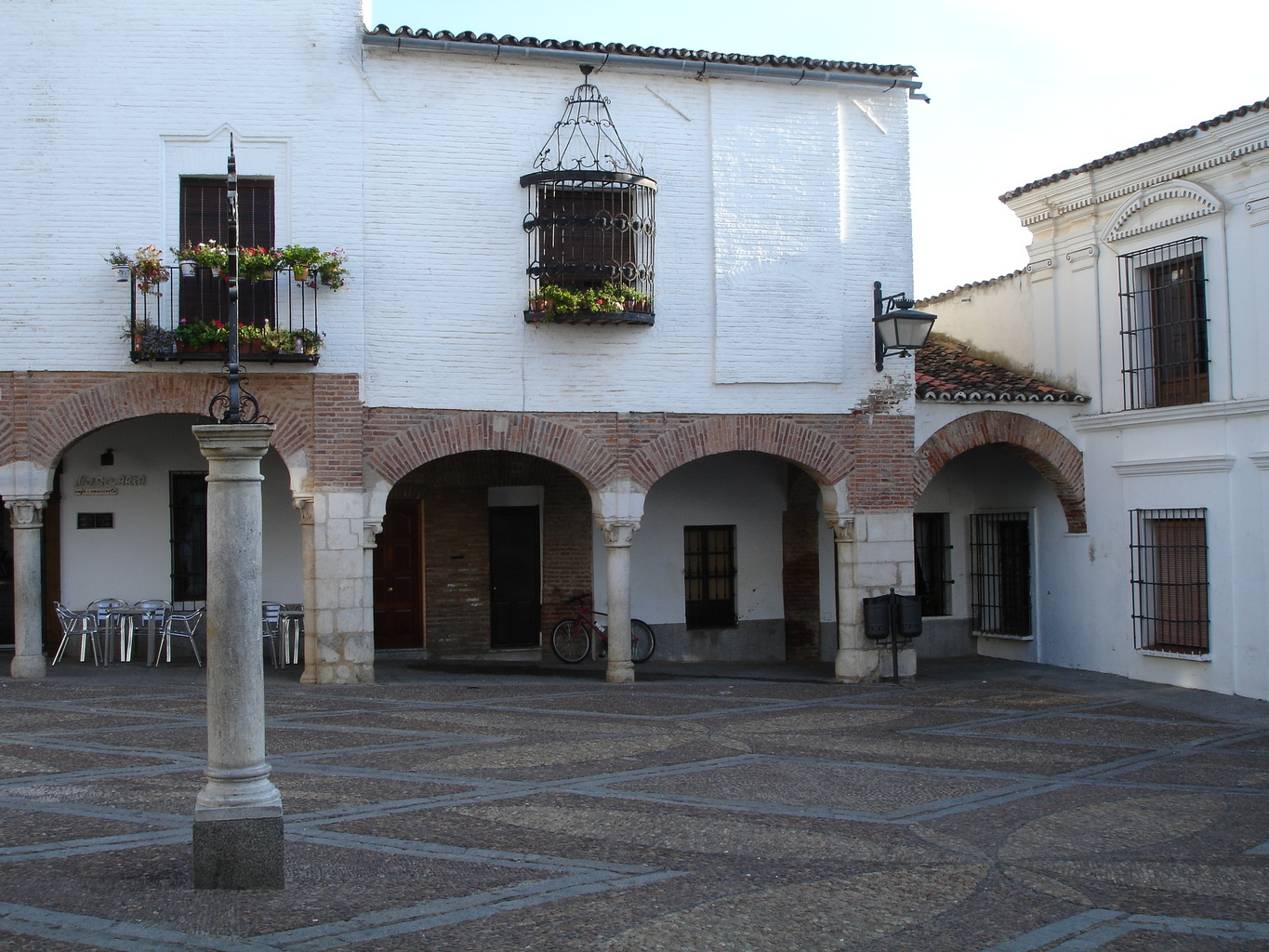 Square in Zafra (Extramadura, Spain)